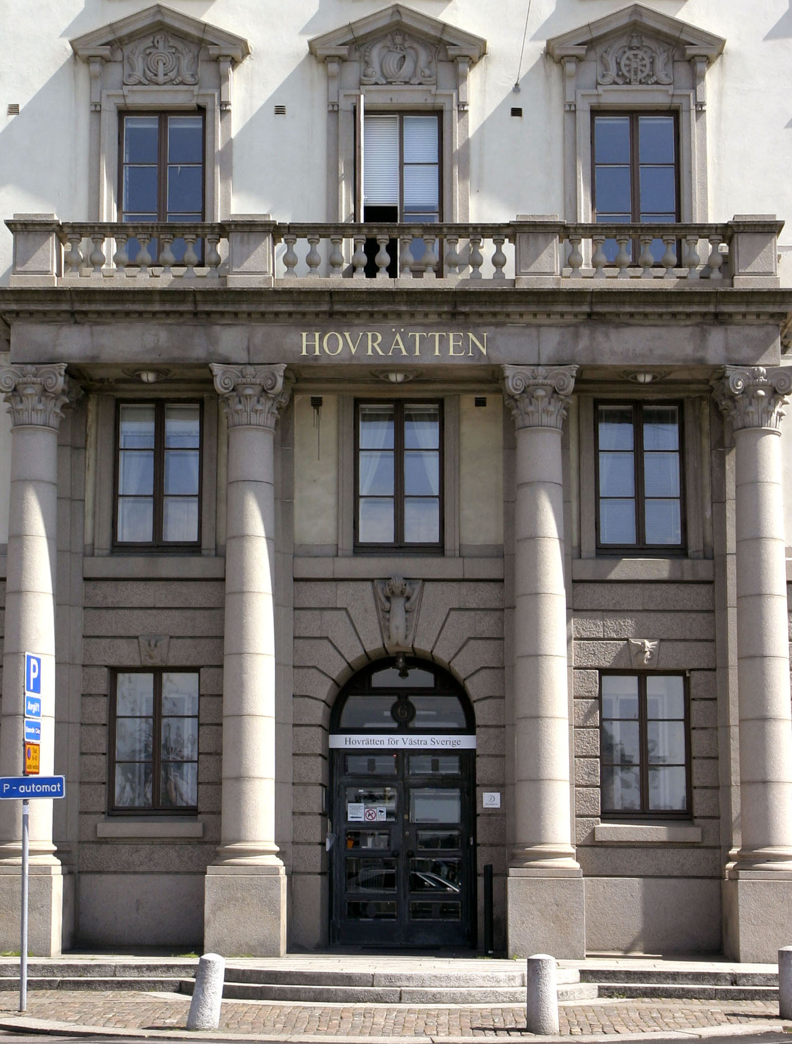 Main entrance for Hovrätten för Västra Sverige